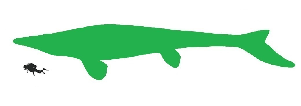 A size comparison Mosasaurus hoffmannii with a diver.